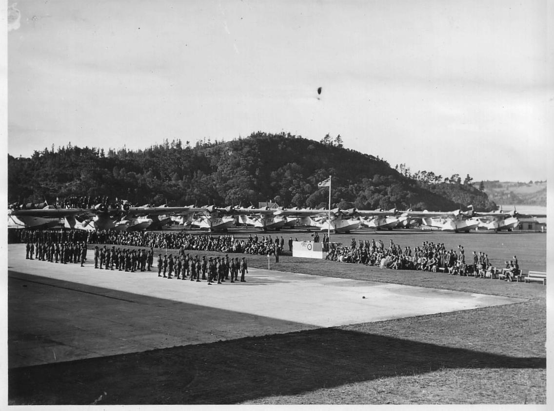 Purchased photograph and right to release for free use reproduction by anyone from agent for estate of photographer. RNZAF Catalinas